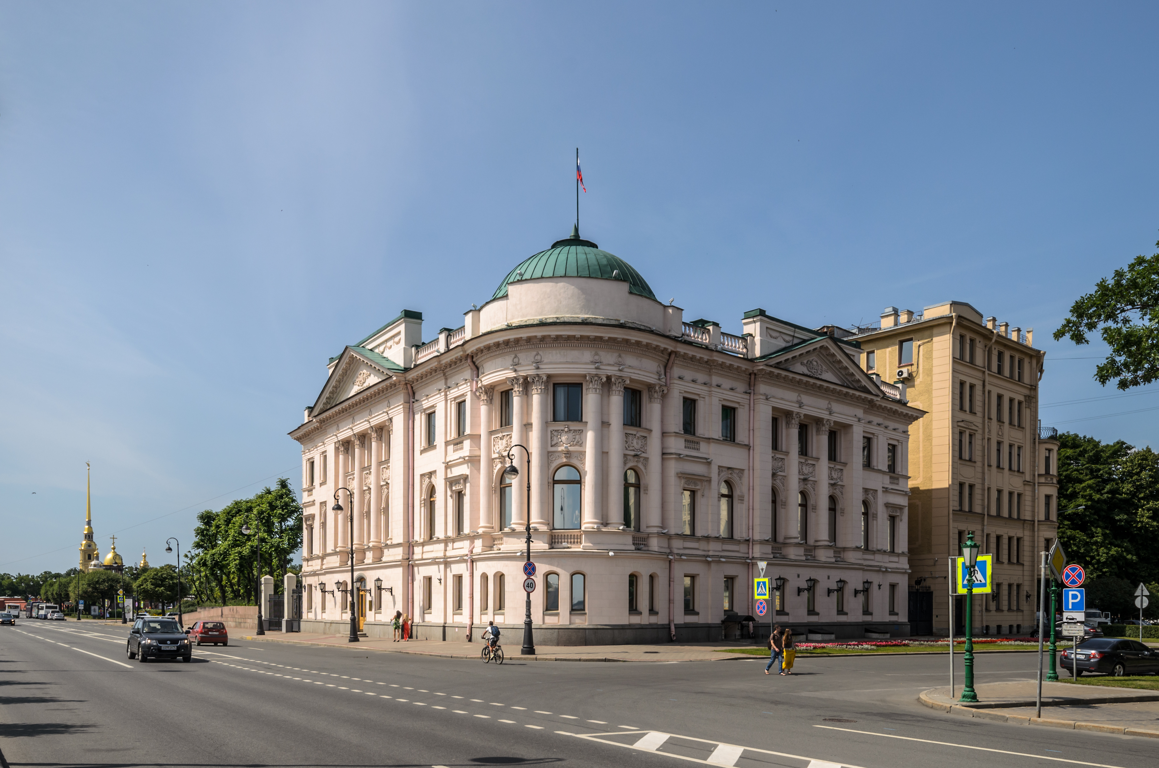 Palace of Grand Duke Nicholas Nikolaievich of Russia the Younger (with apartment house). Built at 1910-1913 by architect A.S.Khrenov.